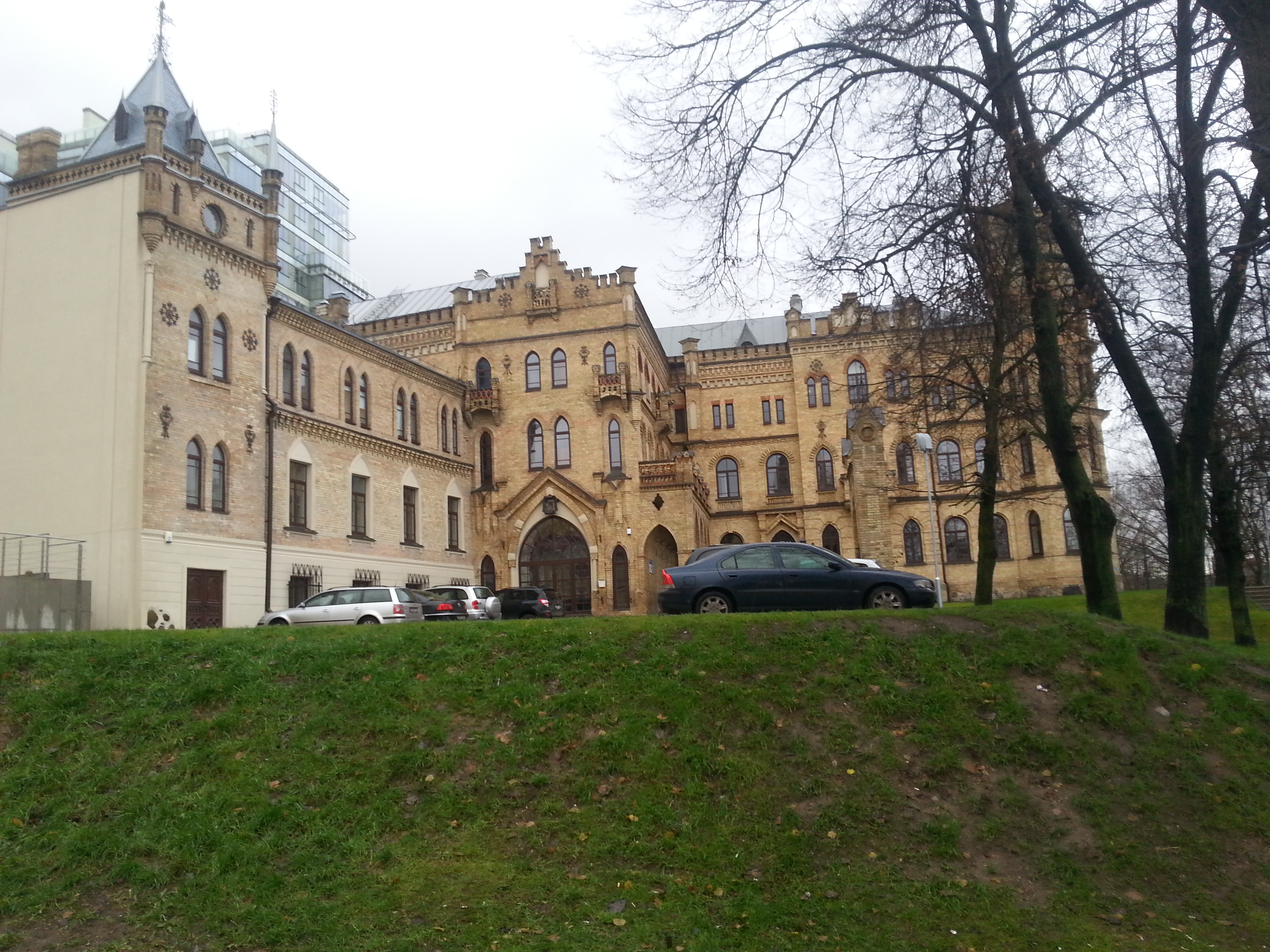 Photo of Raduškevičius Palace in Vilnius.